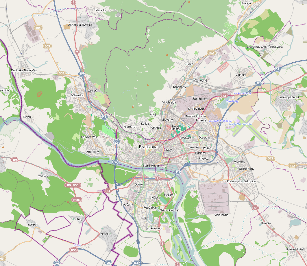 This map may be incomplete, and may contain errors. Don't rely solely on it for navigation.